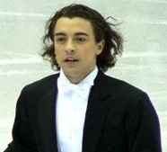 Kristin Fraser and Igor Lukanin at the 2005 European Figure Skating Championships